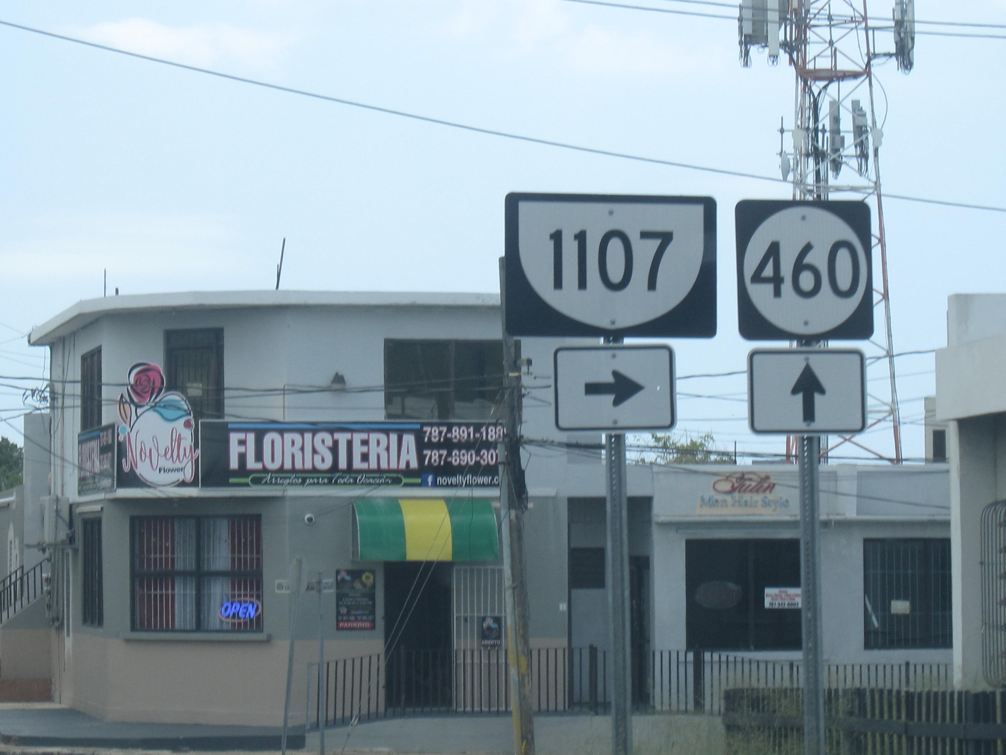 PR-460 and PR-1107 signs near Crash Boat Beach in Aguadilla